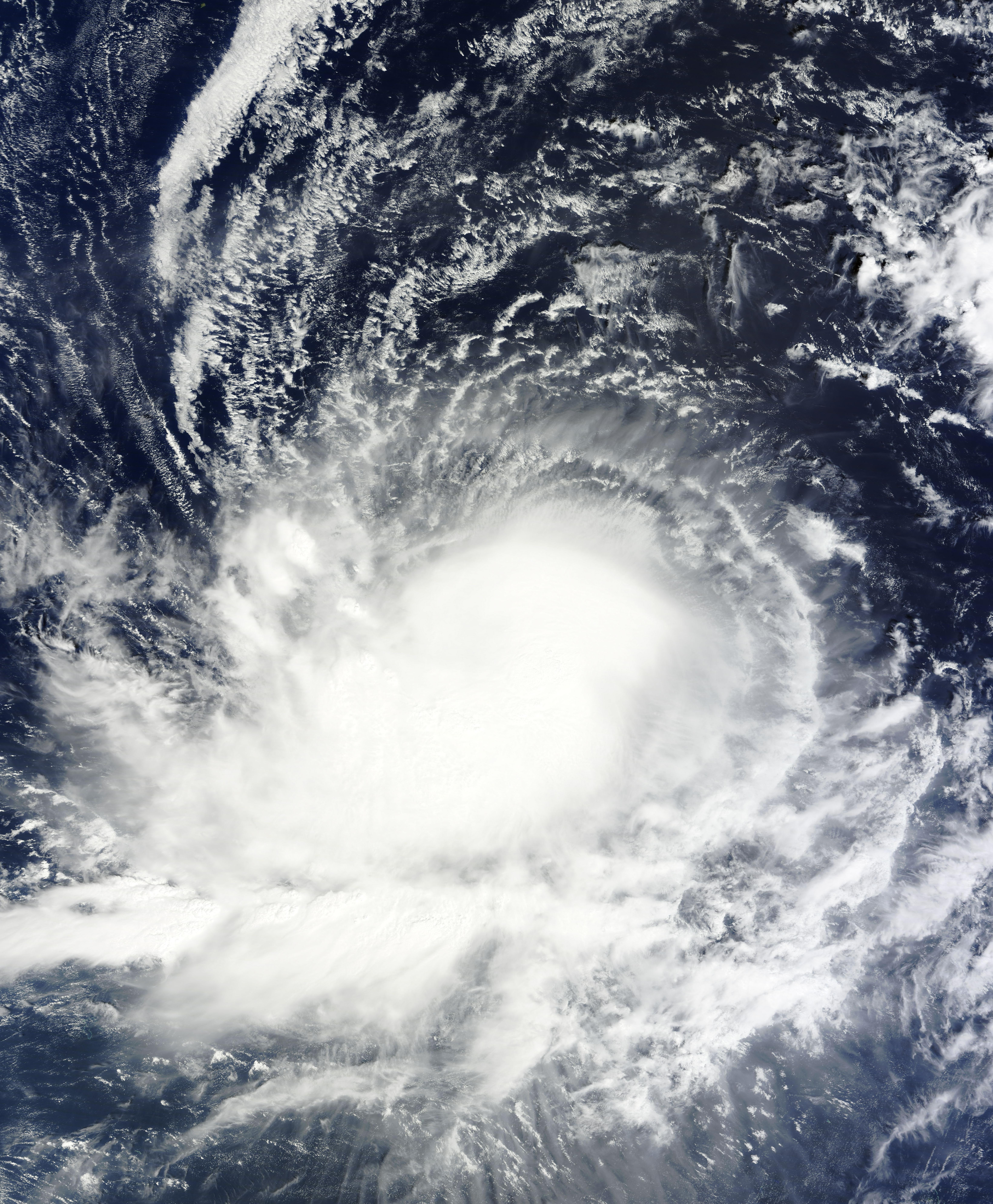 Typhoon Champi affecting the Mariana Islands on October 16, 2015